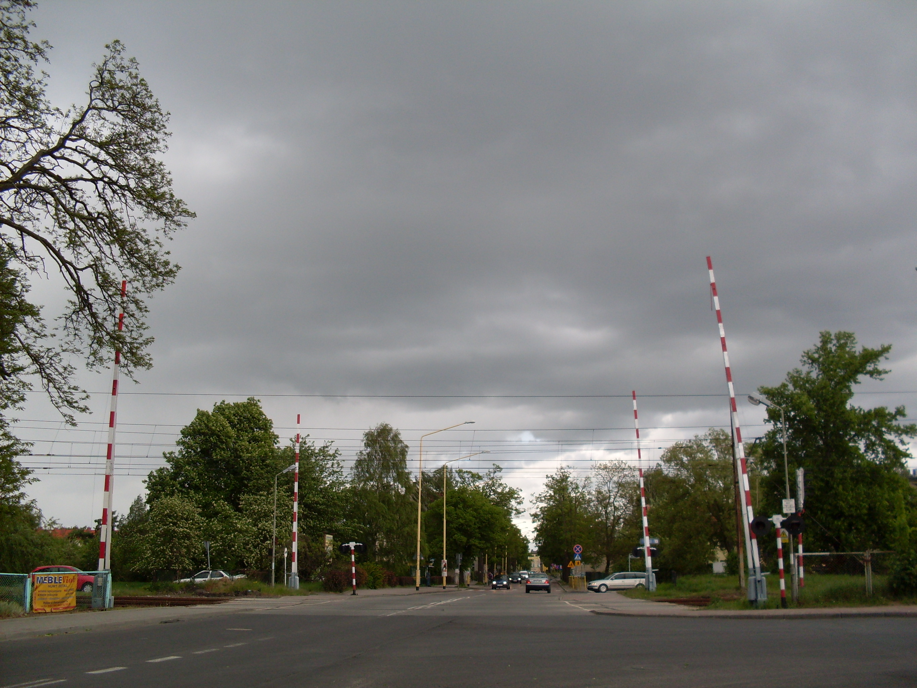 Level crossing in the town centre of Police, Poland